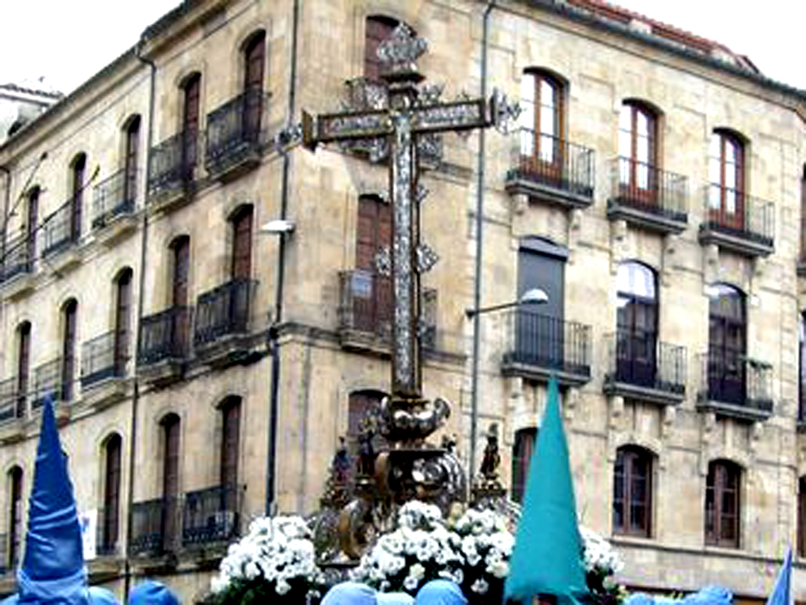 Lignum Crucis in Easter Procession, Salamanca (Spain)